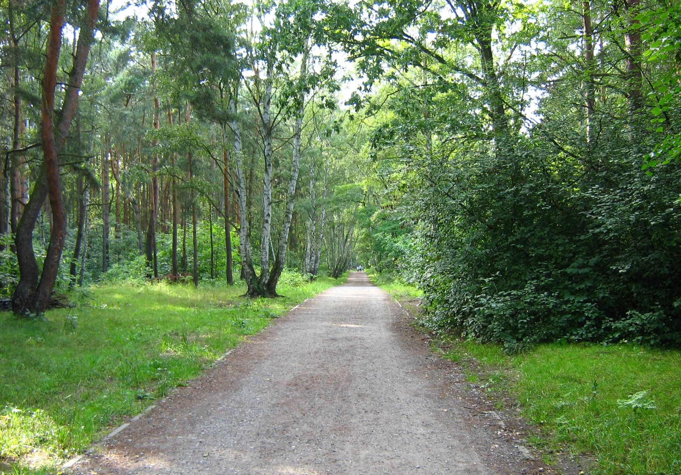 R. Reagan Park in Gdańsk